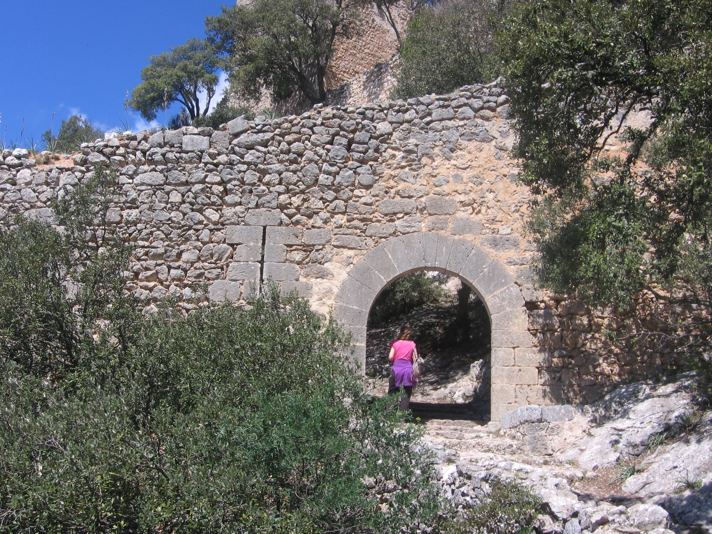 Castell d'Alaró. Alaró. Mallorca.